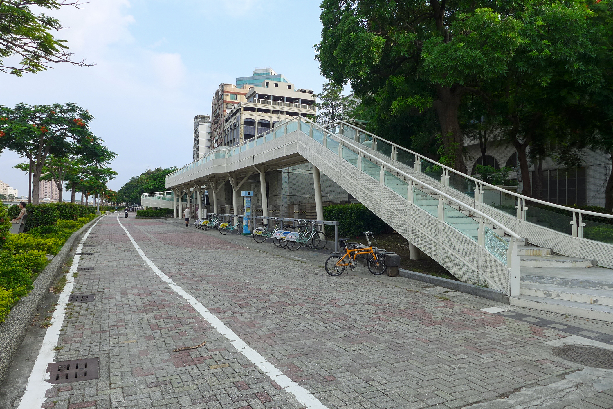 Love River Riverside looking out